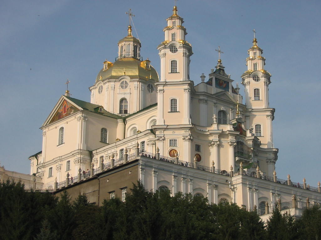 Pochayiv monastery, Ternopil oblast, western Ukraine